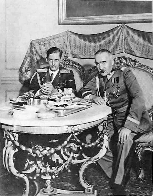 Prince Nicholas of Romania and Józef Piłsudski in Belvedere (Belweder) Palace in Warsaw, Poland, 1931 .